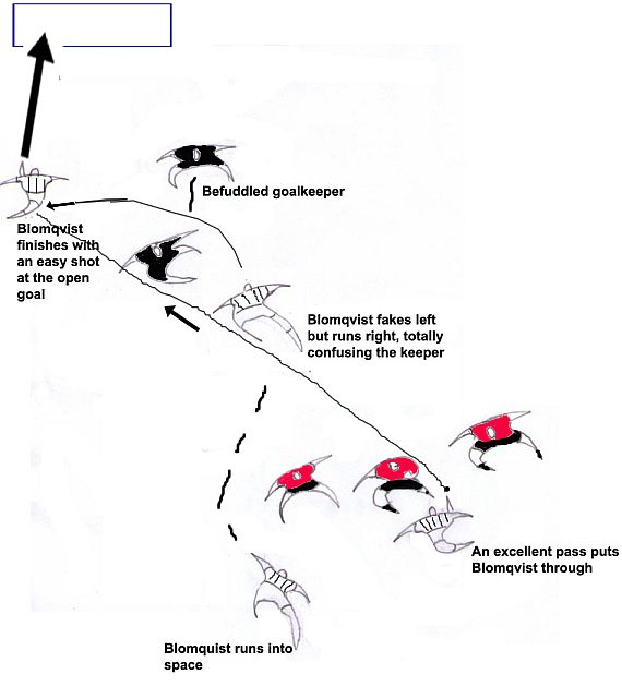 Self-created- released to public dmain. Blomqvist's "runaround" goal against Helsingborgs IF in the Allsvenskan in 1995.